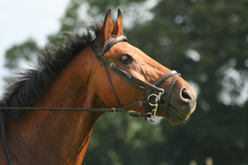 A horse with pelham bit and bit converter.